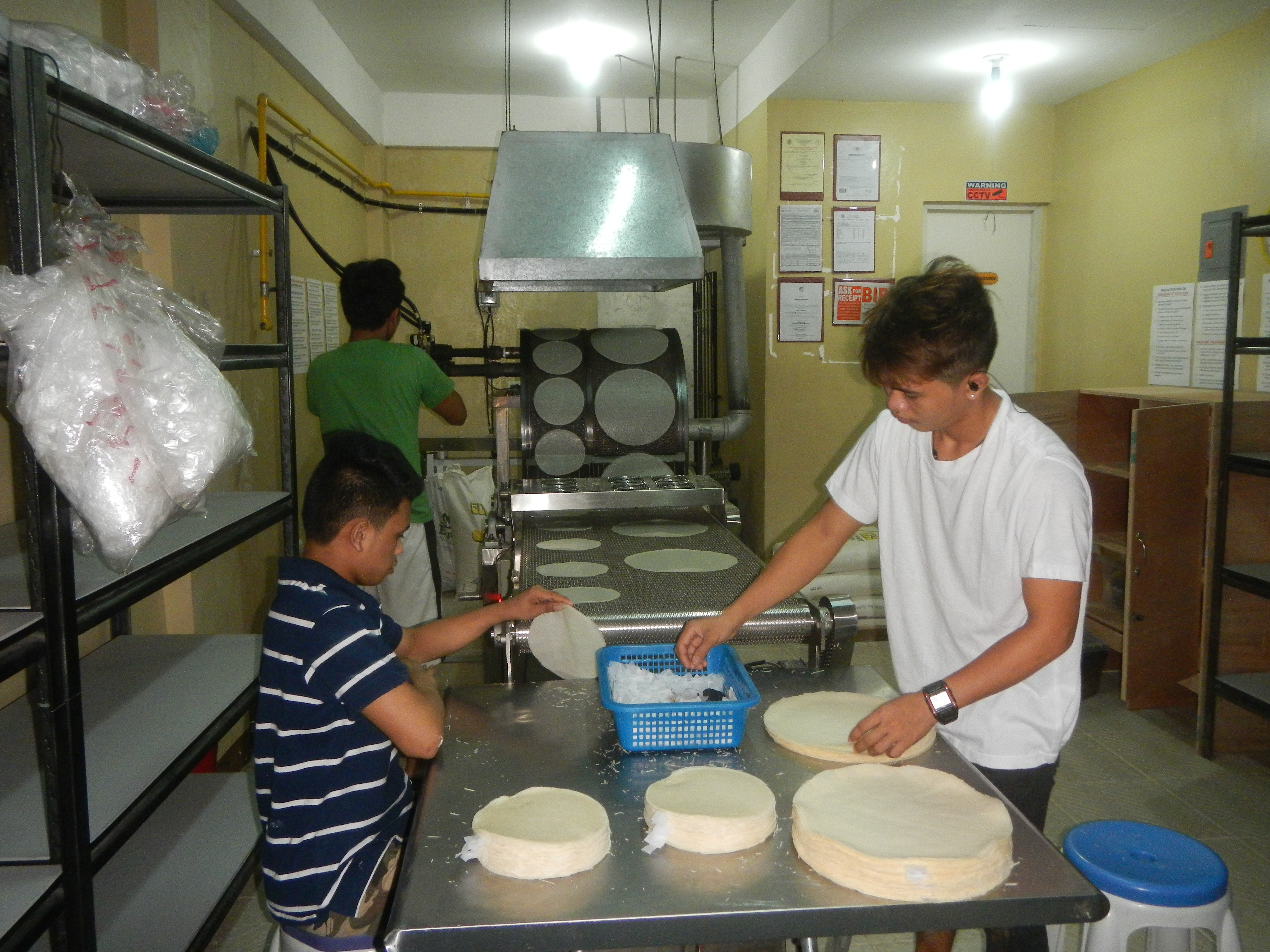 The MarketPlace Shopping Mall & Cinema 1 2 3 4 - Mandaluyong City Public Market The Marketplace 14°35'30"N 121°1'31"E List of eponymous streets in Metro Manila General Kalentong Street 14°35'32"N 121°1'34"E List of barangays of Metro Manila, Barangays Daang Bakal 14°35'35"N 121°1'40"E Barangay Pag-Asa 14°35'24"N 121°1'30"E beside Harapin ang Bukas 14°35'31"N 121°1'34"E Mandaluyong City (Note: Judge Florentino Floro, the owner, to repeat, Donor Florentino Floro of all these photos hereby donate gratuitously, freely and unconditionally all these photos to and for Wikimedia Commons, exclusively, for public use of the public domain, and again without any condition whatsoever).